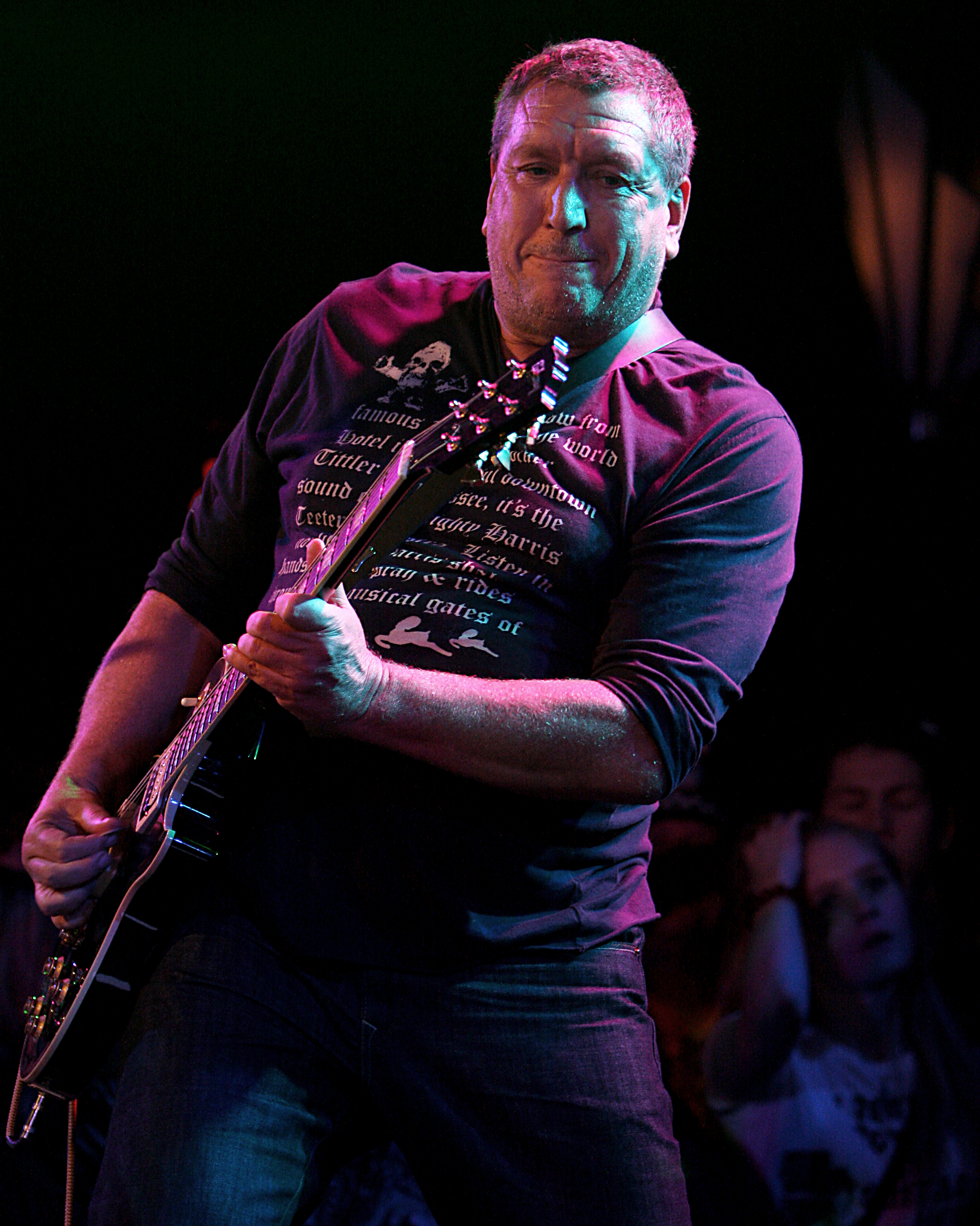 Camp Freddy - The Roxy Theater - Hollywood, CA - Dec 23, 2008